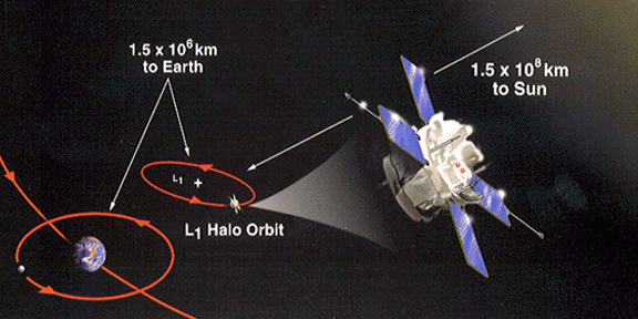 ACE in its orbit around L1.